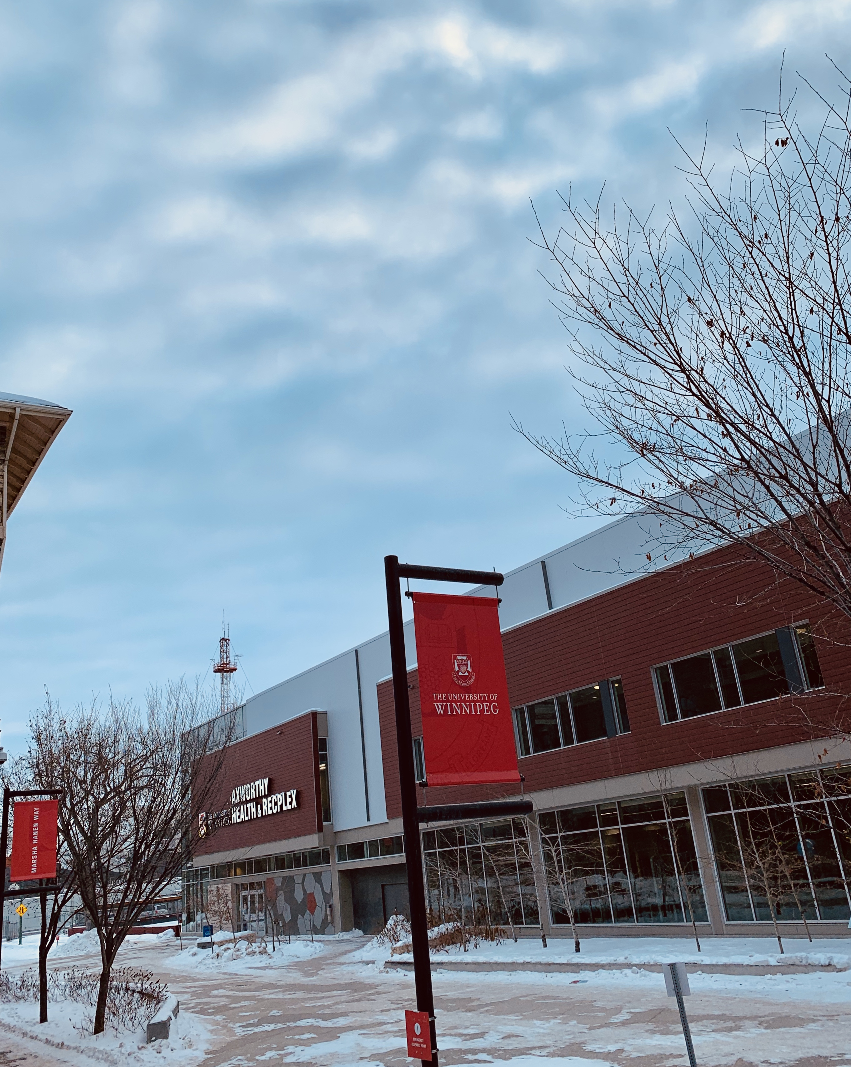 Internal walking commons with the Axworthy Health and Recplex in the back.